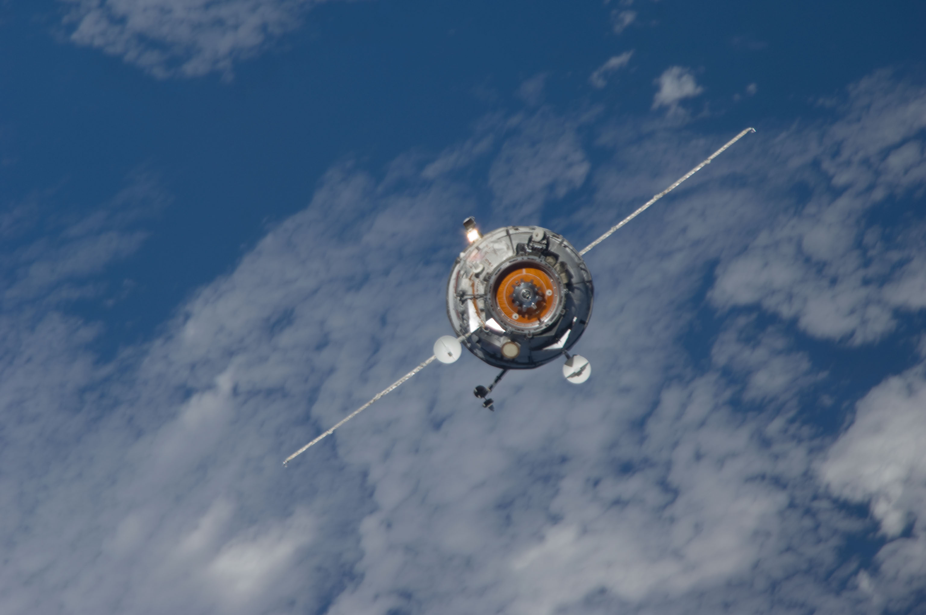 Backdropped by a blue and white part of Earth, the new unpiloted Russian Mini-Research Module 2 (MRM2), also known as Poisk, approaches the International Space Station. The MRM2 docked to the space-facing port of the Zvezda Service Module at 9:41 a.m. (CST) on Nov. 12, 2009. It began its trip to the station when it was launched aboard a Soyuz rocket from the Baikonur Cosmodrome in Kazakhstan on Nov. 10. Poisk is a Russian term that translates to search, seek and explore. It will provide an additional docking port for visiting Russian spacecrafts and will serve as an extra airlock for spacewalkers wearing Russian Orlan spacesuits. Poisk joins a Russian Progress resupply vehicle and two Russian Soyuz spacecraft currently docked at the station.